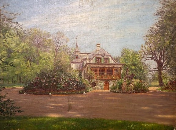 Painting of the house Villa Rolighed in Skodsborg North of Copenhagen, Denmark